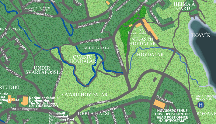 Hoydalar an area between Tórshavn and Hoyvík, Faroe Islands